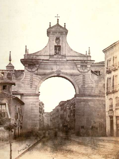 Puerta del Campo (also called Arco de Santiago) (Valladolid) defunct City Gate with the figure of Saint Michael in its central niche (photo Francisco Sancho)